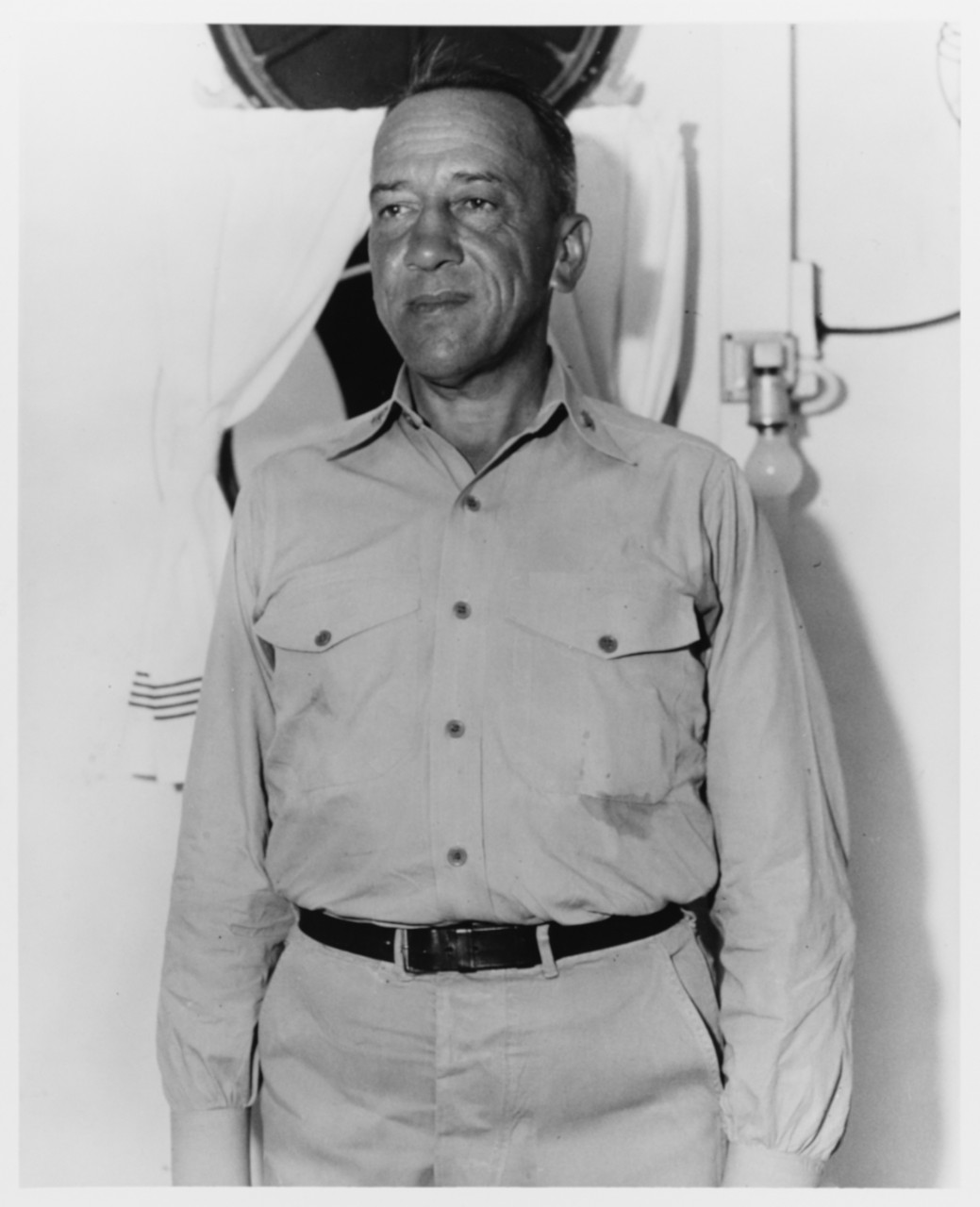 Captain Thomas G. W. Settle, USN, while commanding officer, USS PORTLAND (CA-33) circa 1944.